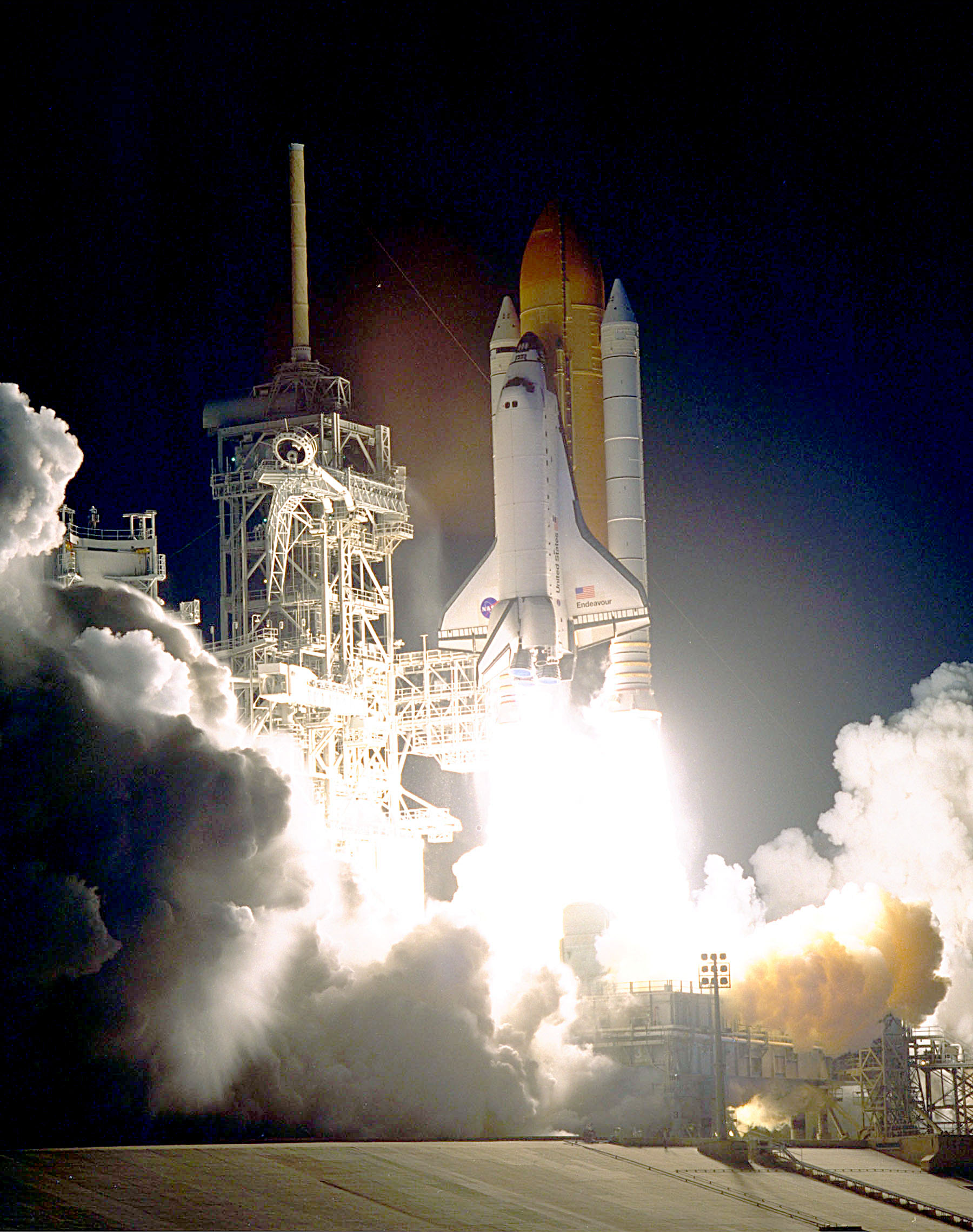 The Space Shuttle Endeavour lights up the night sky as it embarks on the first U.S. mission dedicated to the assembly of the International Space Station. Liftoff on Dec. 4 from Launch Pad 39A was at 3:35:34 a.m. EST. During the nearly 12-day mission, the six-member crew will mate in space the first two elements of the International Space Station -- the already-orbiting Zarya control module with the Unity connecting module carried by Endeavour. Crew members are Commander Robert D. Cabana, Pilot Frederick W. "Rick" Sturckow, and Mission Specialists Nancy J. Currie, Jerry L. Ross, James H. Newman and Sergei Konstantinovich Krikalev, a Russian cosmonaut. This was the second launch attempt for STS-88. The first one on Dec. 3 was scrubbed when launch controllers, following an assessment of a suspect hydraulic system, were unable to resume the countdown clock in time to launch within the remaining launch window.